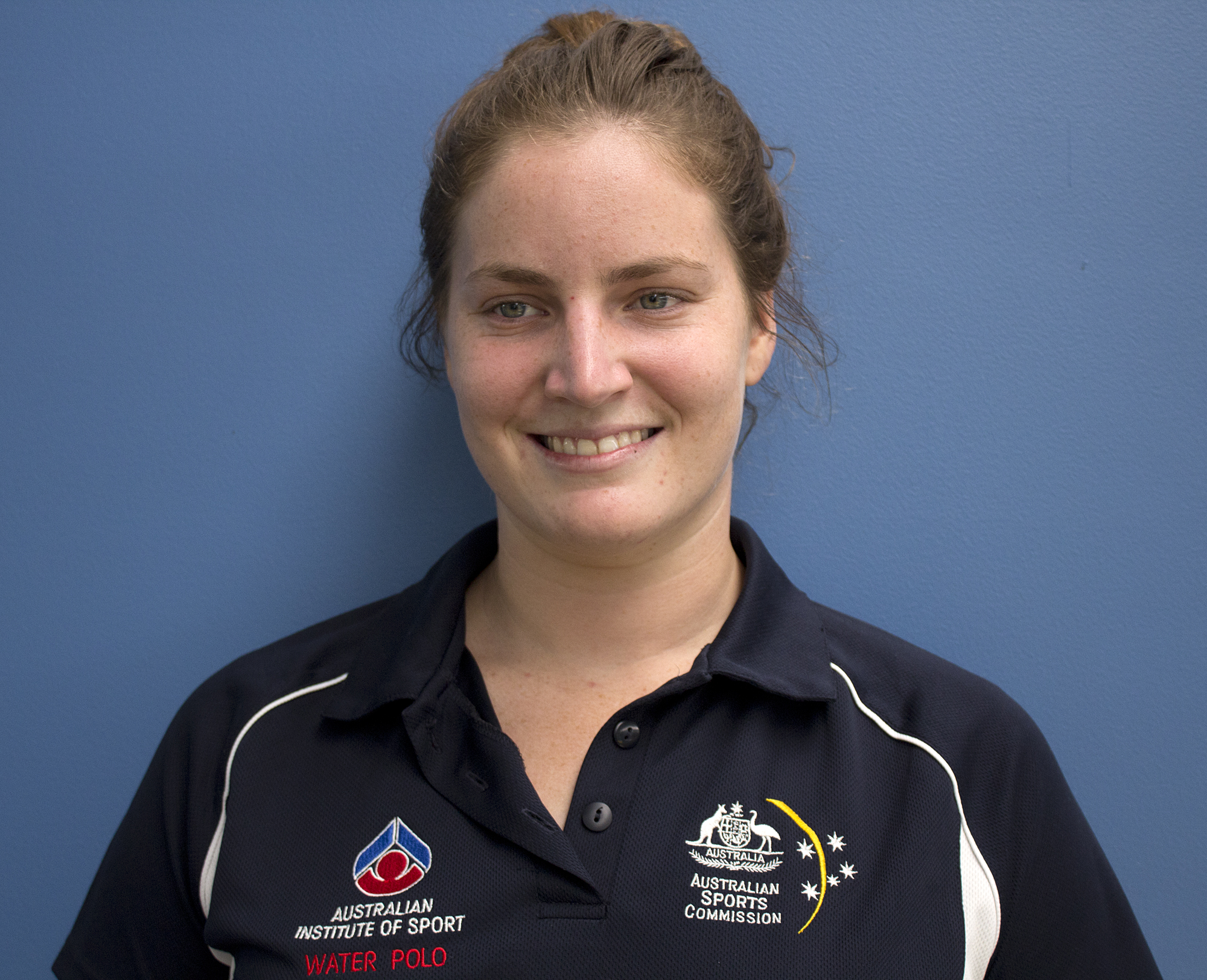 A portrait of Ashleigh Southern Australian women's national water polo player.